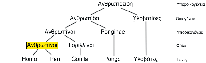 Hominoid taxonomy, diagram 7 (c. 2005, following Groves' splitting of Hylobates into 4 genera)